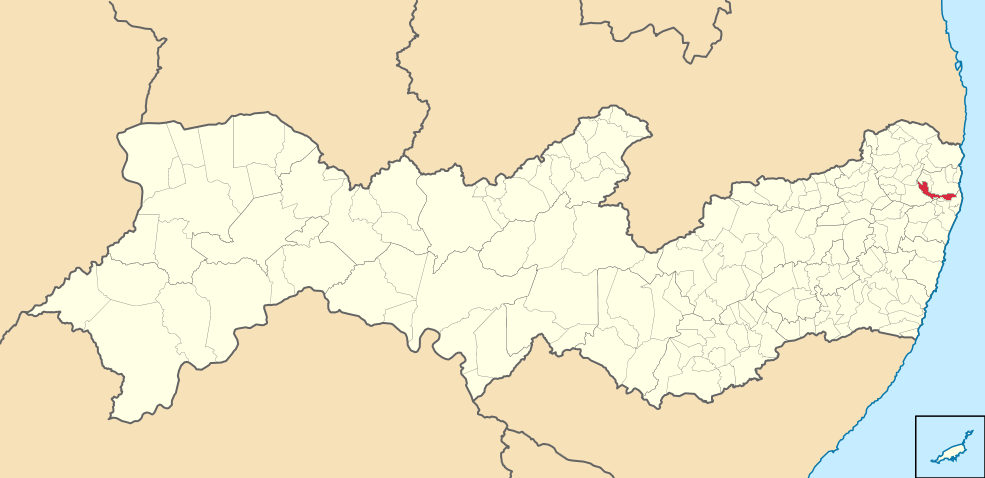 Mapa de Abreu e Lima (2)